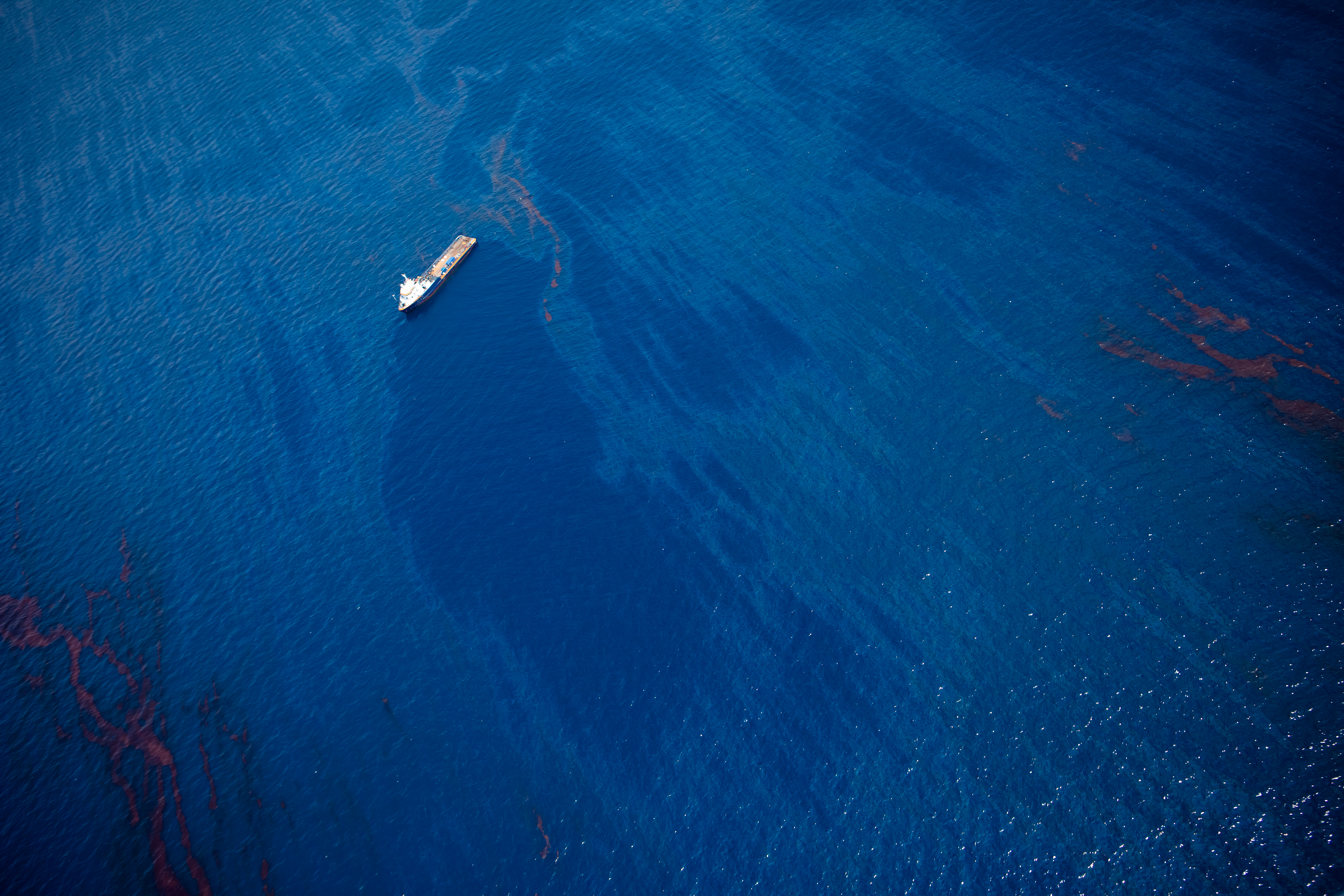 Gulf of Mexico, June 18, 2010 during the Deepwater Horizon oil spill